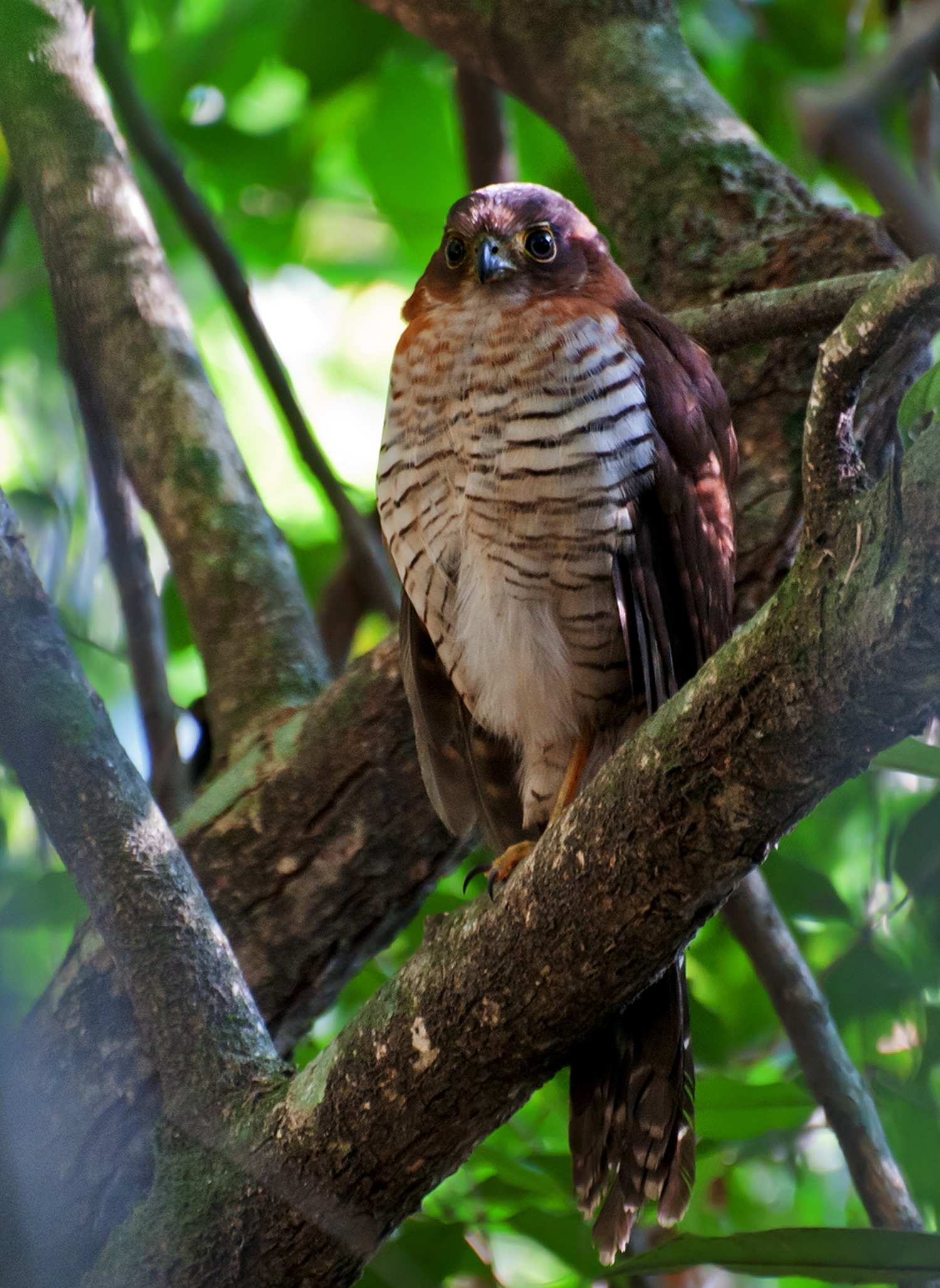 A Barred Forest Falcon in Parque Estadual da Serra da Cantareira, São Paulo, Brazil.